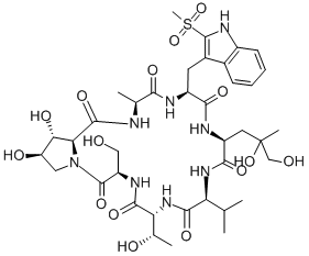 Chemical structure of viroidin, a toxin found in several genera of poisonous mushrooms